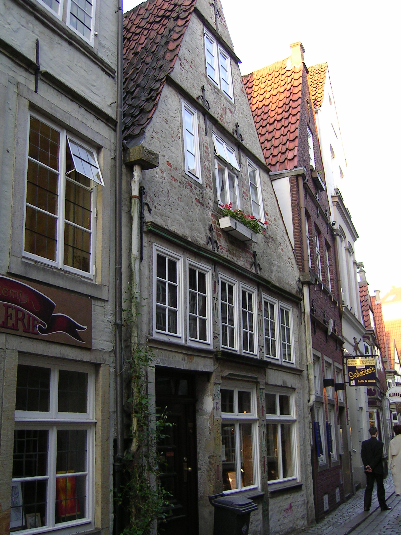 Houses from the 15th and 16th centuries along the narrow alleys in Bremen’s oldest surviving quarter